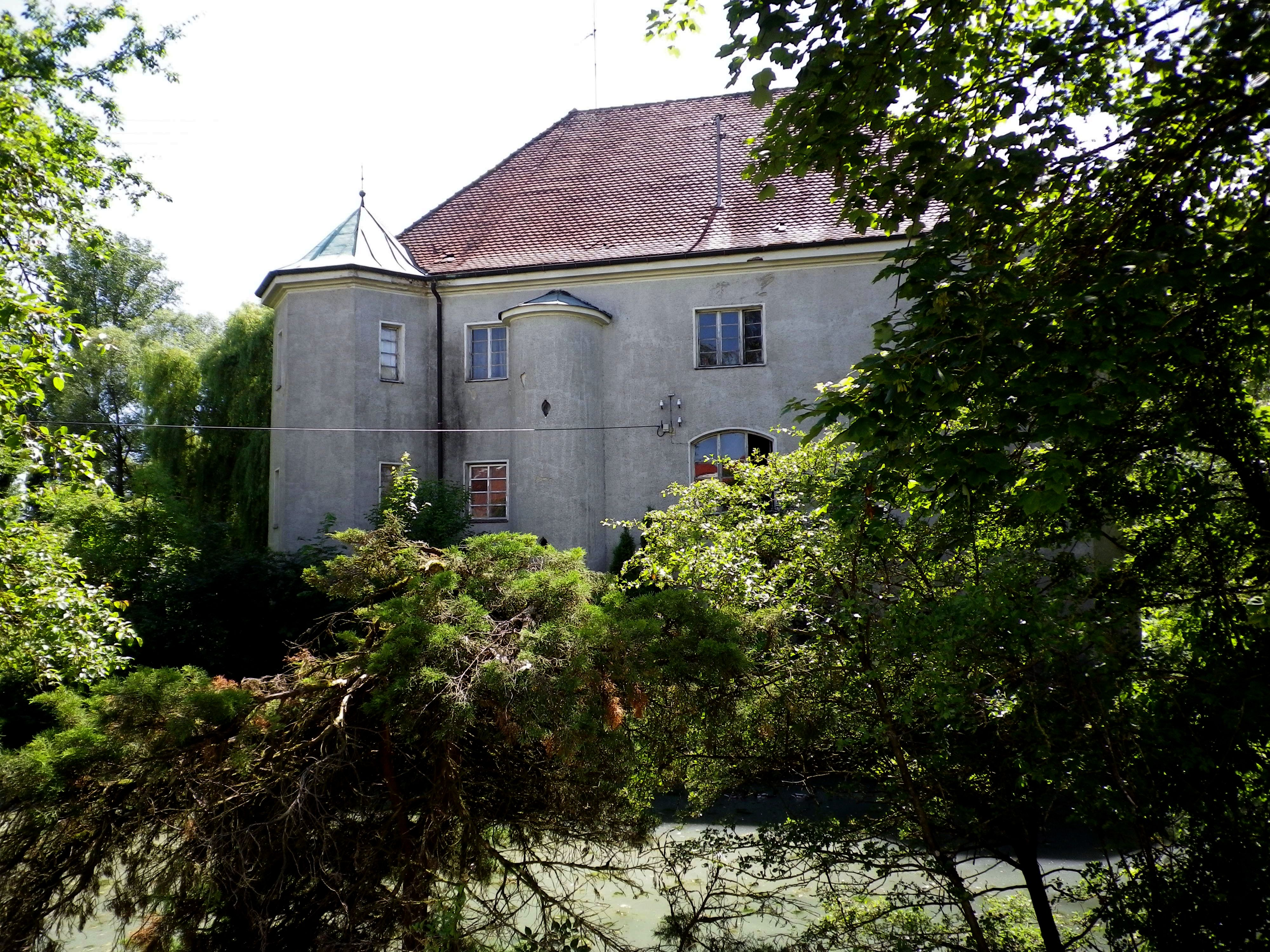 This is a photograph of an architectural monument.